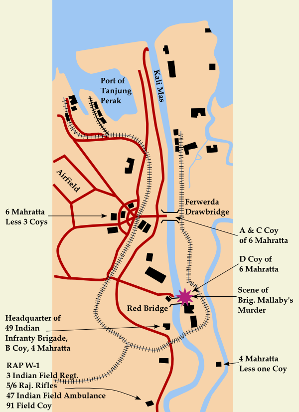 Scene during the Battle of Surabaya in 1945 when Brig. Gen. Mallaby was murdered.